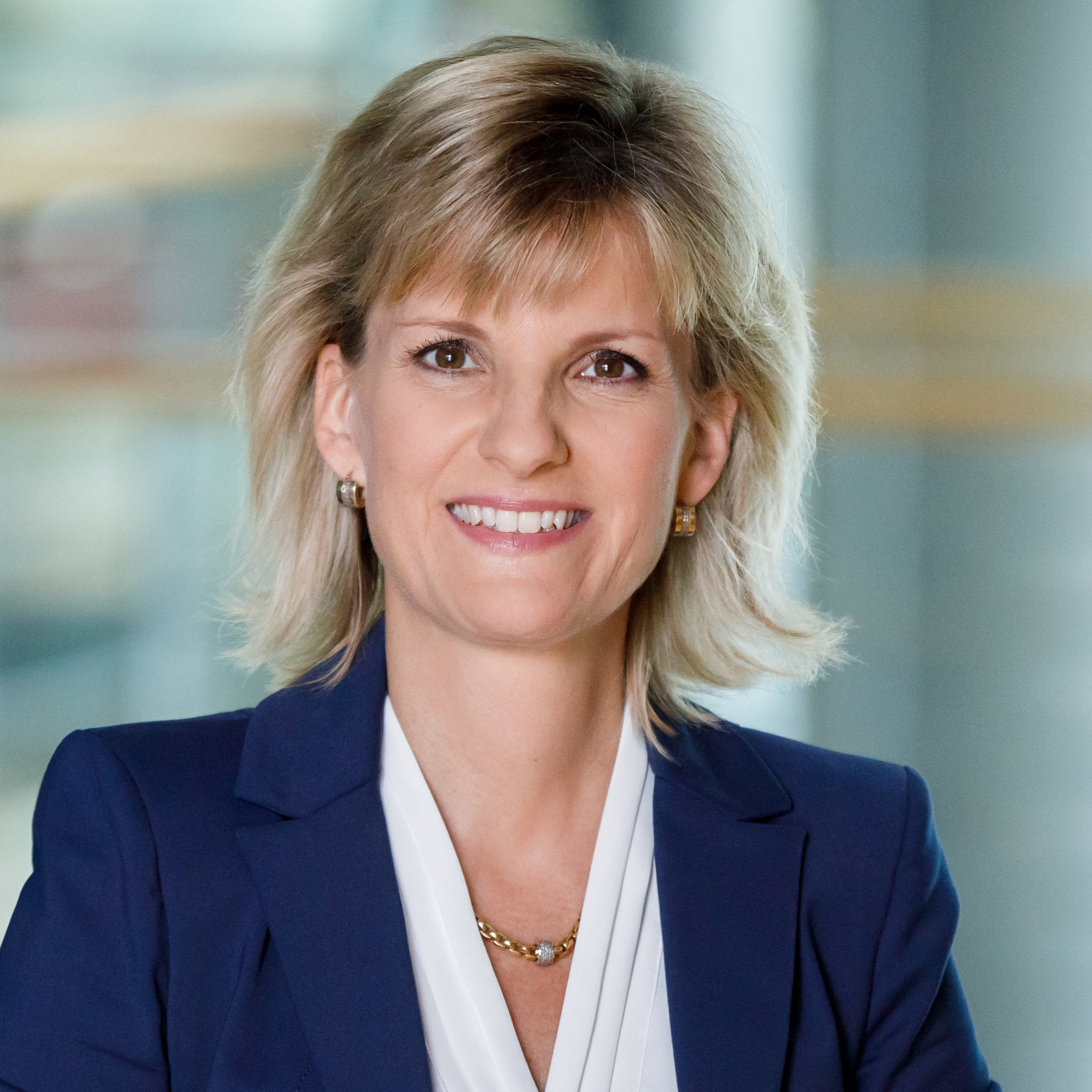 Daniela Ludwig, 27 June 2018 in Berlin